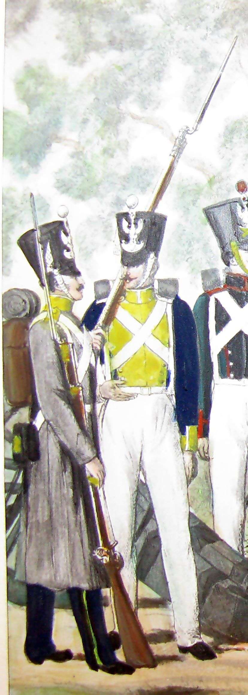 1st, 2nd Infantry Regiment of Polish Army of November Uprising